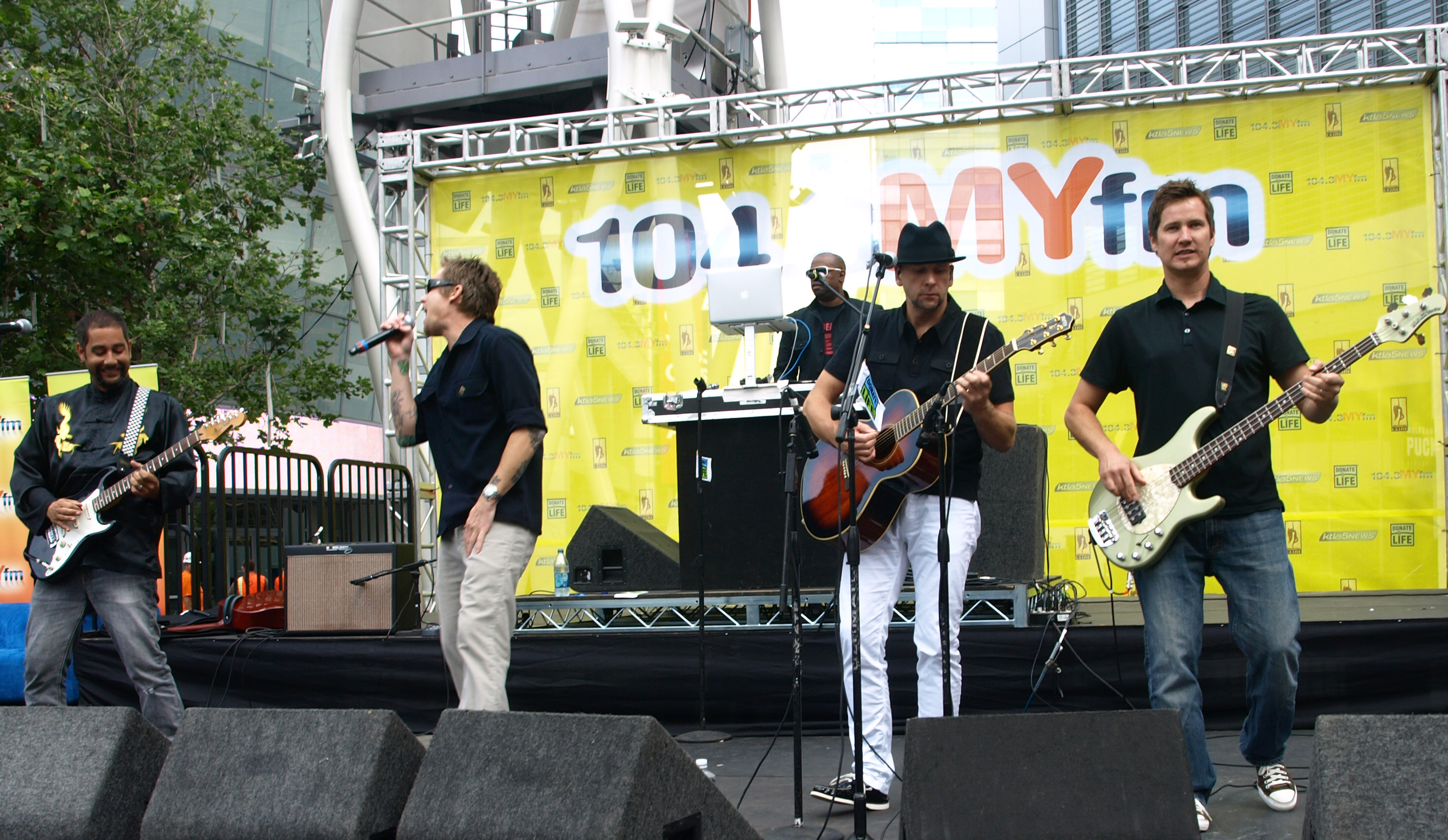 The band Sugar Ray on June 15, 2009 performing in Downtown Los Angeles, CA.